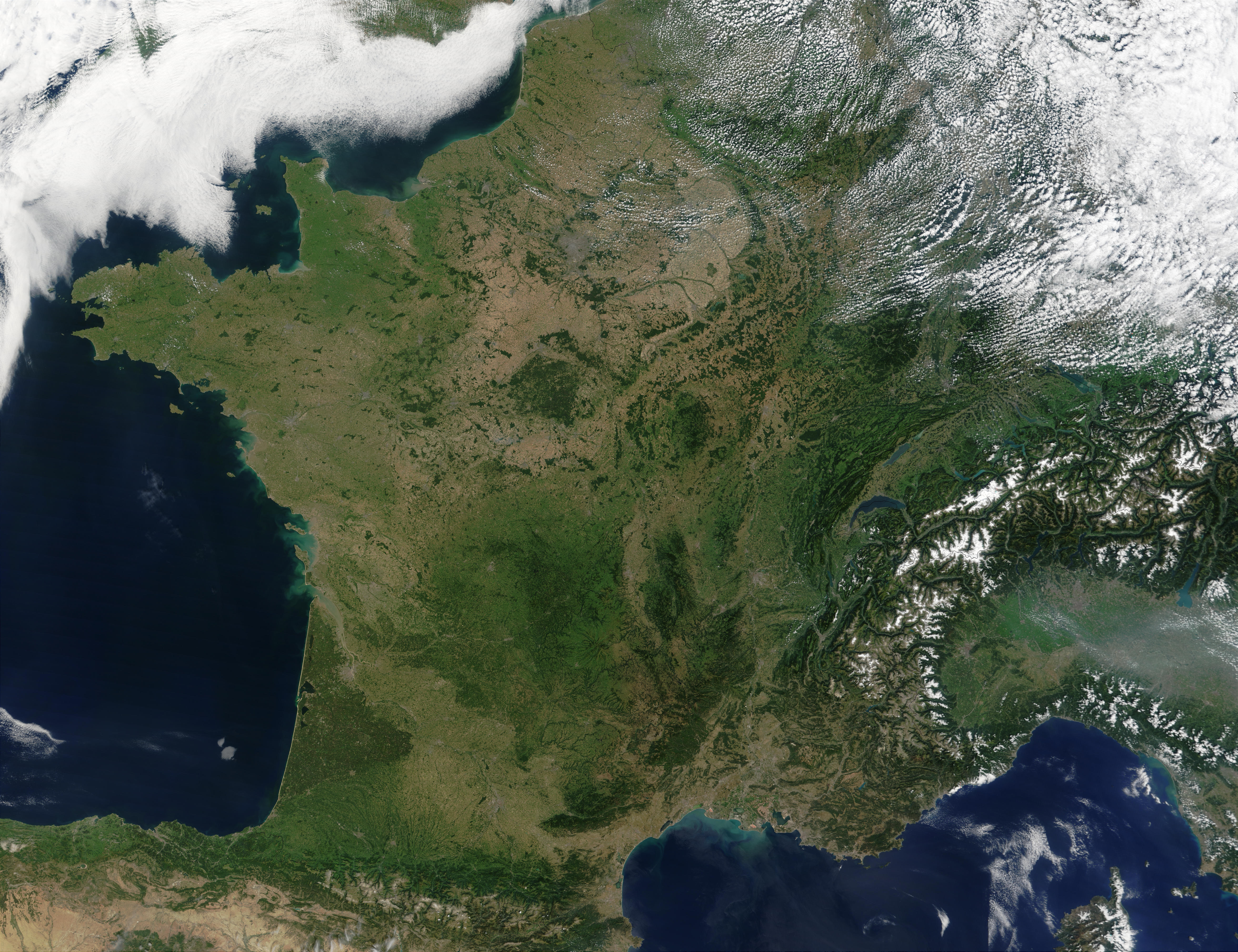 Satellite image of France in August 2002. An unusually cloud-free France shows green and tan in this true-color Moderate Resolution Imaging Spectroradiometer (MODIS) image acquired August 14, 2002, by the Terra satellite. The great city of Paris is visible in the upper center of the image as a gray smudge against the landscape, and is even clearer in the higher resolutions of this image. To the north, clouds mostly obscure the English Channel, but the Bay of Biscay to the west is clear, as is the Mediterranean Sea to the south. The northernmost portion of Spain is clearly visible at the bottom of the image, and is separated from France by the Pyrenees Mountain Range.